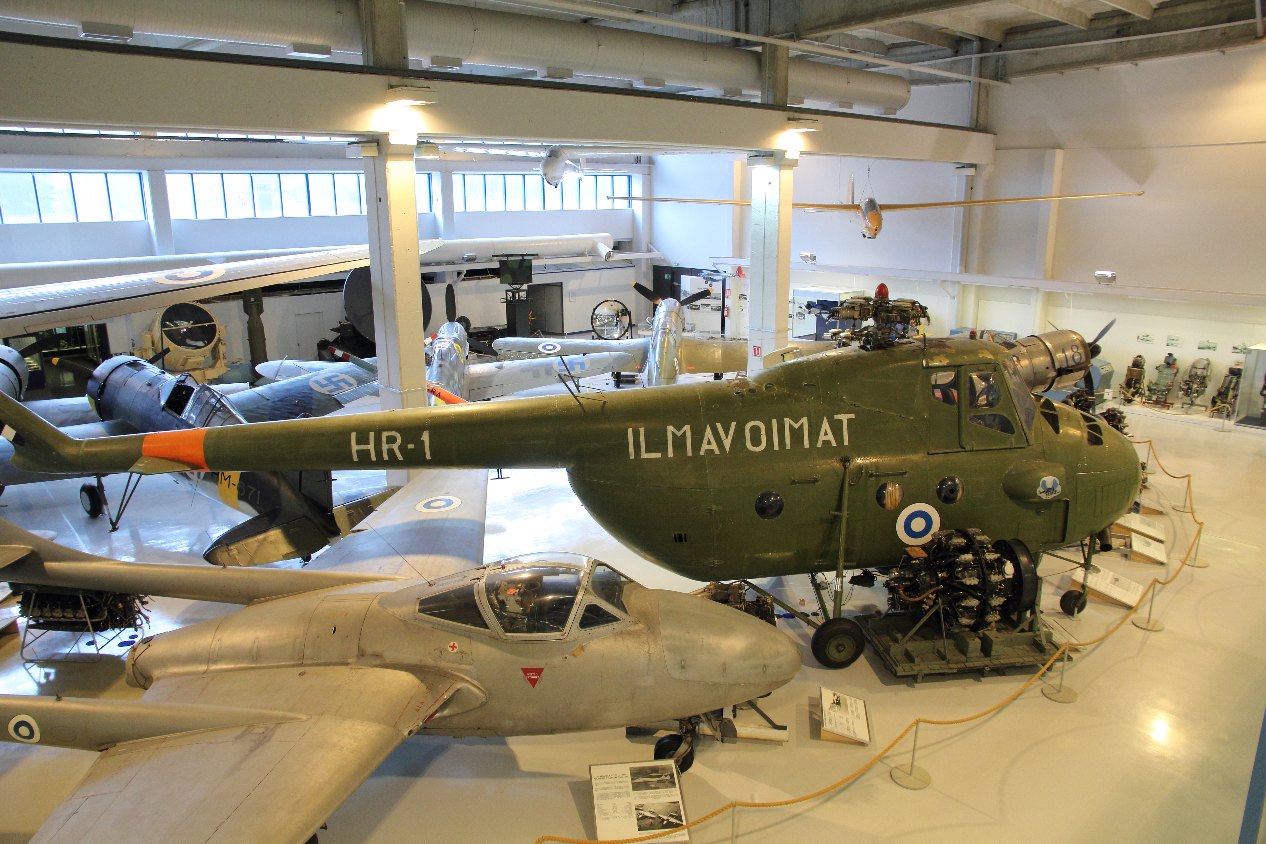 Mil Mi-4 helicopter (HR-1) in the Aviation Museum of Central Finland. De Havilland D.H.115 Vampire Trainer Mk.55 (VT-8) on the foreground.